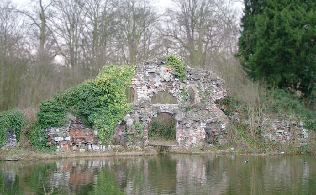 The Grotto, Wanstead park. Built in the 1760s during the refurbishment of the gardens the Grotto was a boathouse with a facade of a grotto with a room above the boat dock decorated with coloured glass and flourespar set in the walls and ceilings. There were candles set in alcoves with mirrors set behind to reflect the light and the floor was set with geometric patterns of coloured pebbles. there were two fires in the early 1900's which turned the building into an attractive ruin.